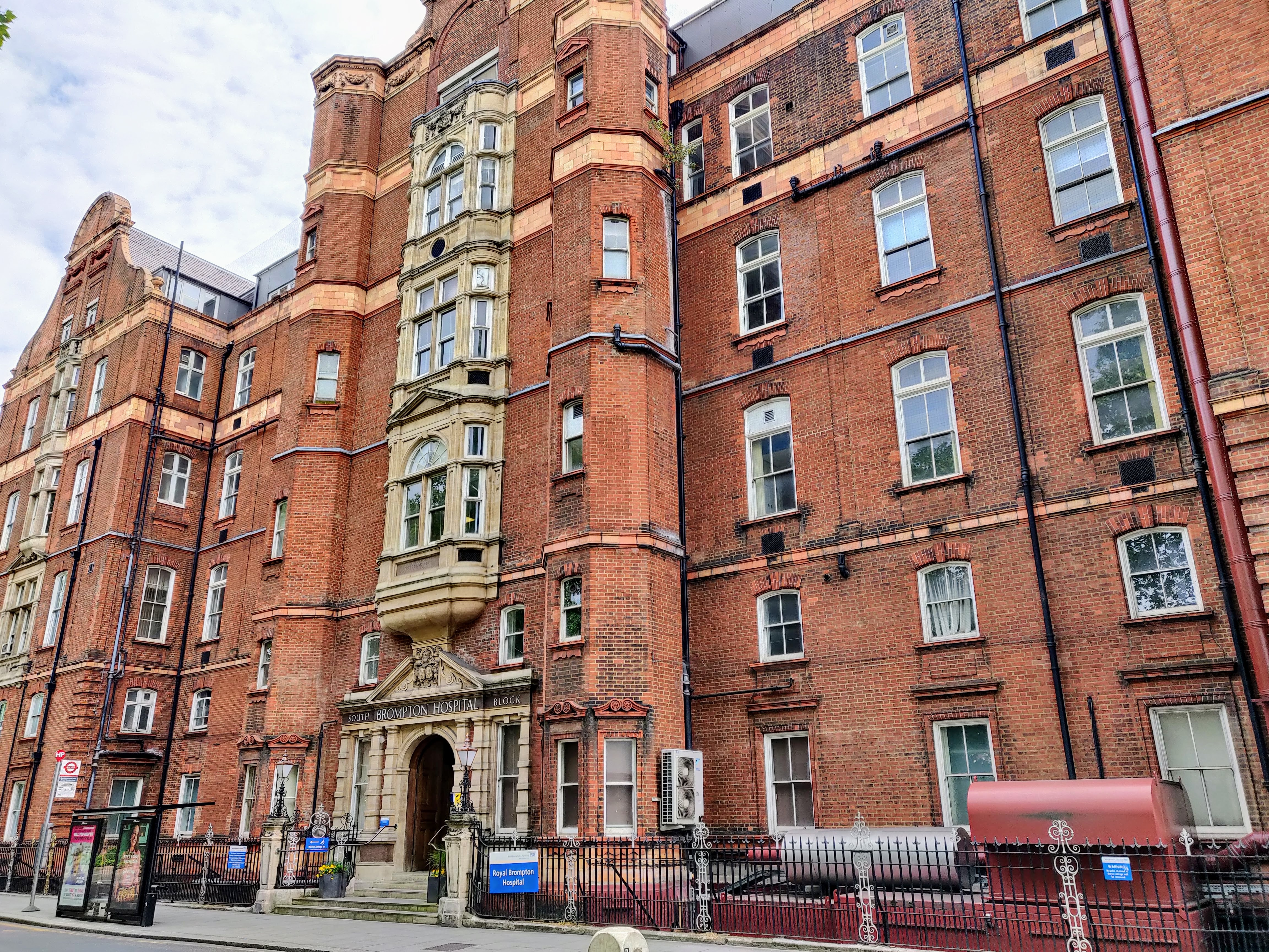 The Fulham Wing at the Royal Brompton Hospital on Fulham Road. Inscribed above the door "South Block", surrounding "Brompton Hospital", recalls when the old building across the road was the main block of the hospital. Today, the Fulham Wing is the northernmost wing of the hospital.